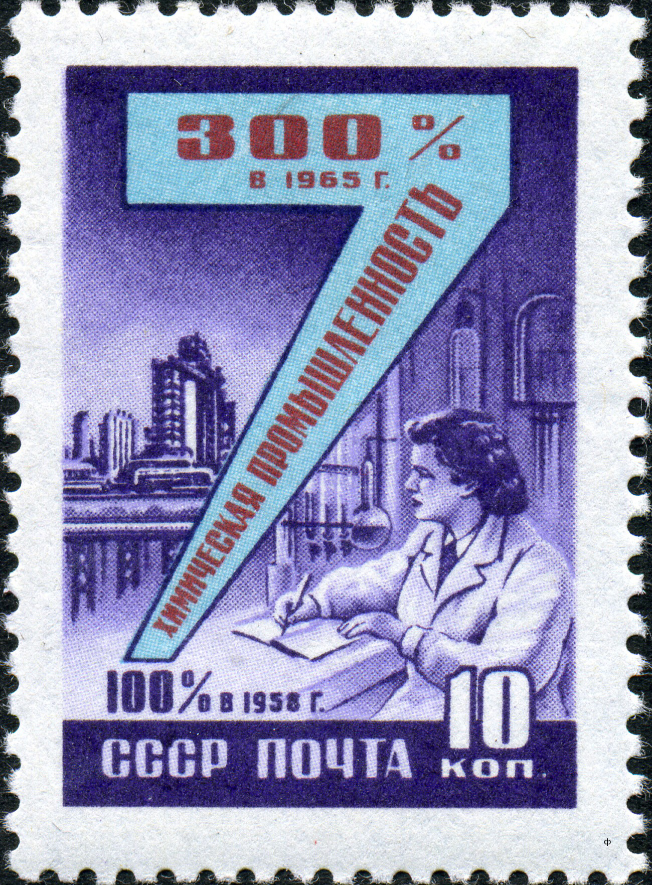 10k Soviet stamp from 1959, celebrating growth in the chemical industry (index number 2341)